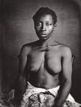 Daguerreotype of Delia, a slave woman on a plantation in Columbia, South Carolina. Delia was an American born slave, daughter of Congo born slave "Renty". One of a series of photo-portraits of slaves made for Louis Agassiz in 1850 for his study of races. Related photo: file:DeliaDaughterOfRentry.jpg profile head portrait of same woman